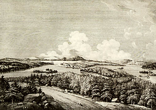 A view from Vermasvuori hill, Hauho, Finland